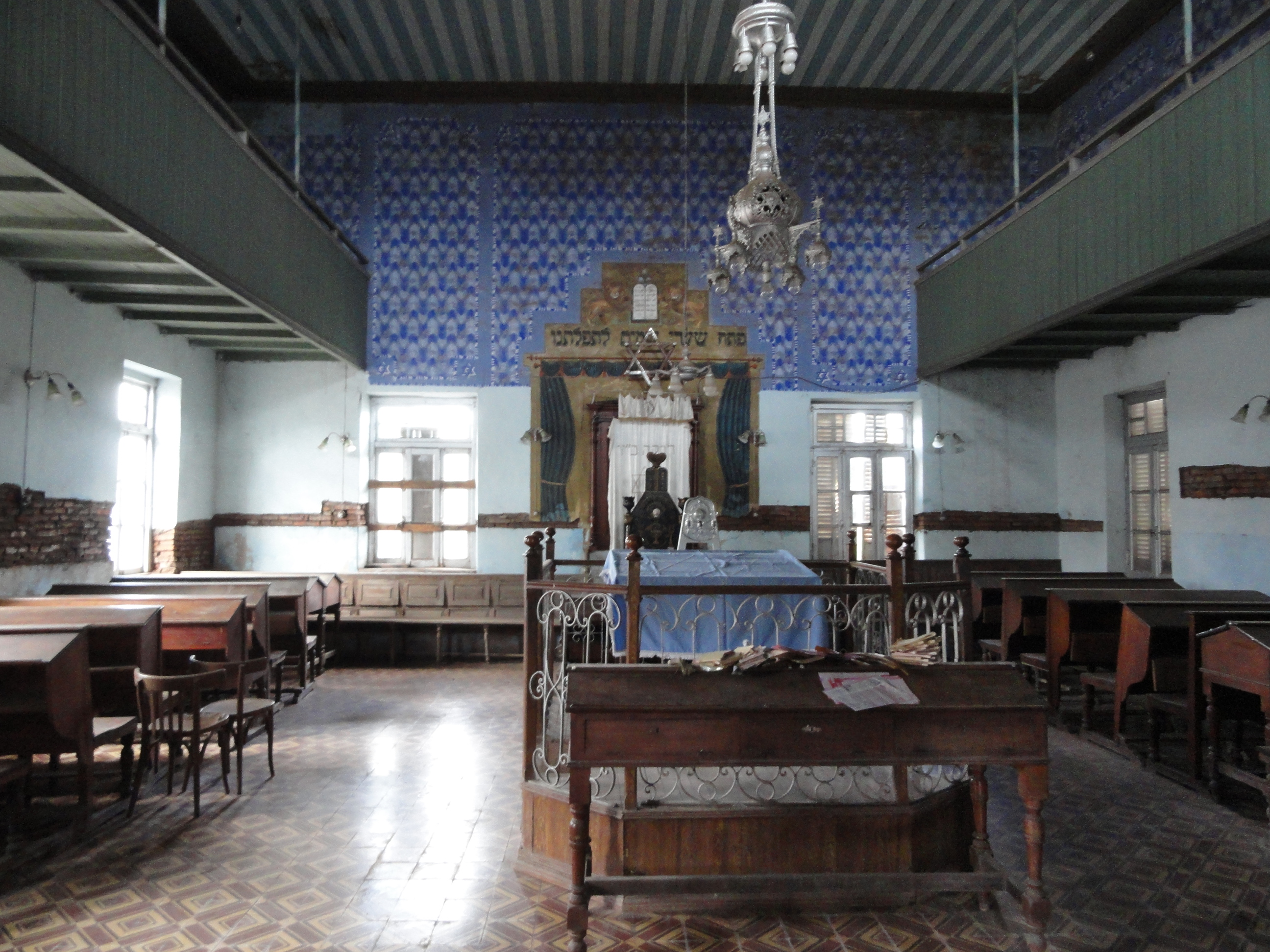 The worker's synagogue (Arbeter Shoul) in Moisés Ville, Argentina (Inside of the synagogue)